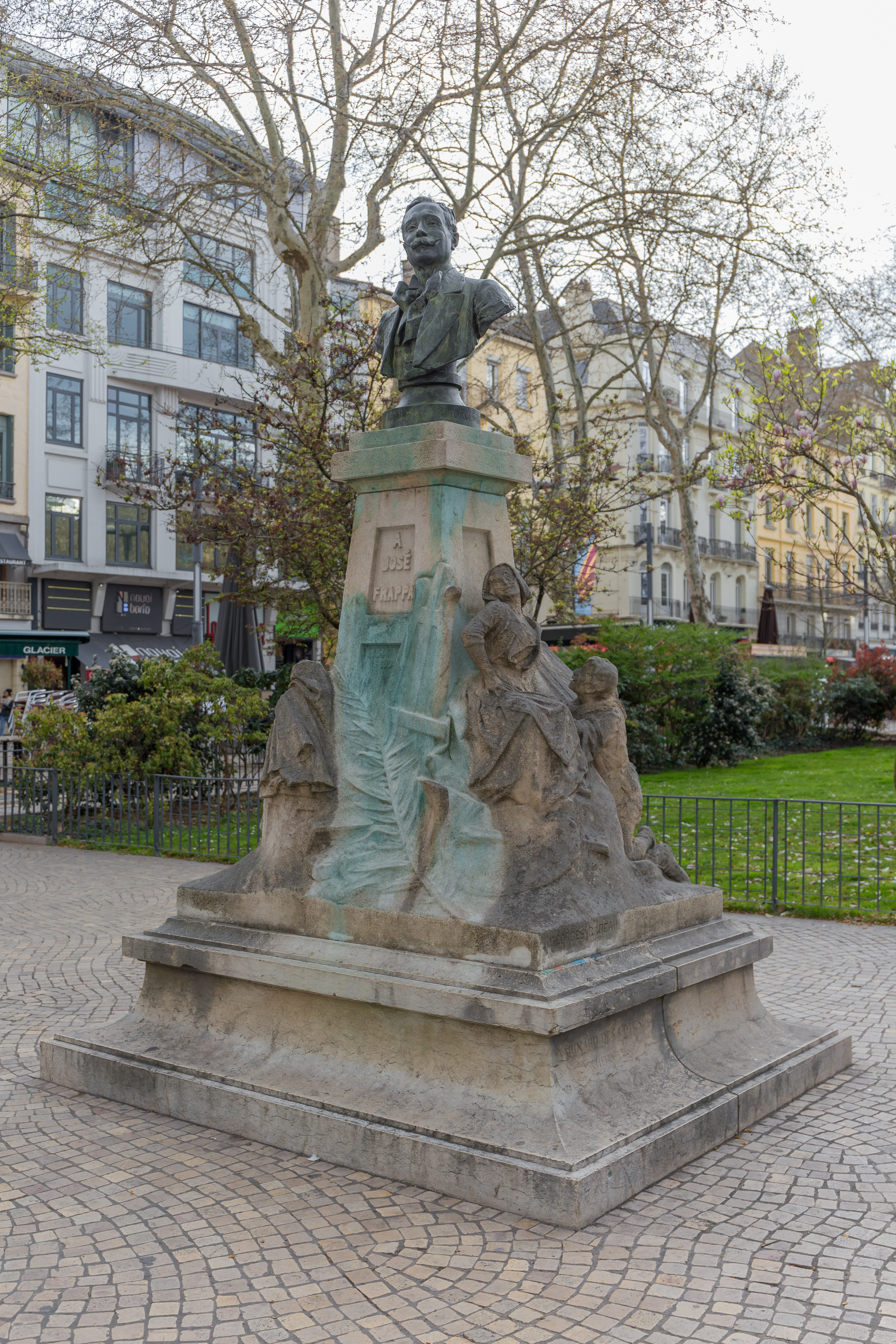 Monument dedicated to José Frappa, a Saint-Etienne artist, directed by Georges Bareau and installed in 1912. Northeast view.